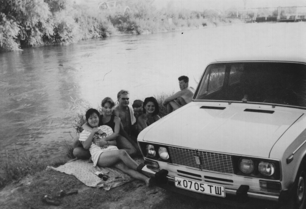 A group of youth on Bozsu water canal in Uzbekistan. 1995.